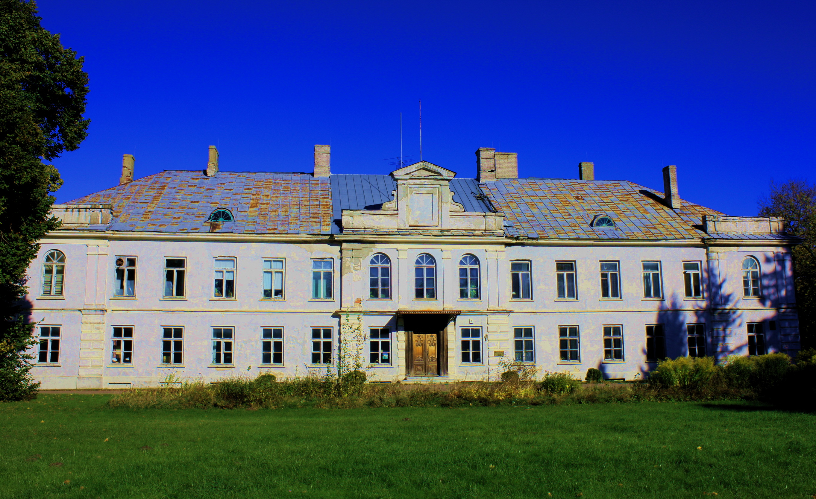 Harku manor house